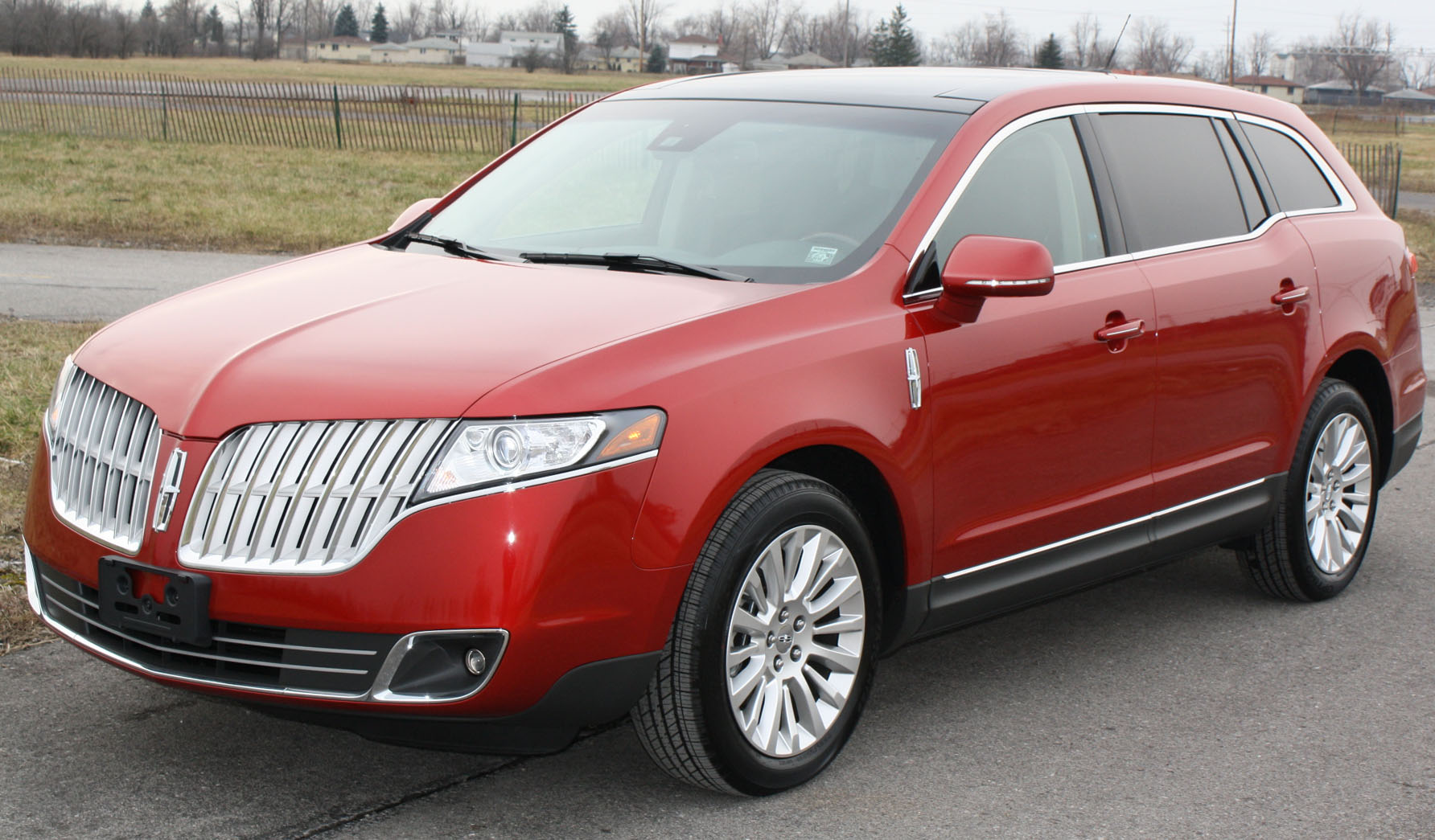 2010 Lincoln MKT photographed in USA.